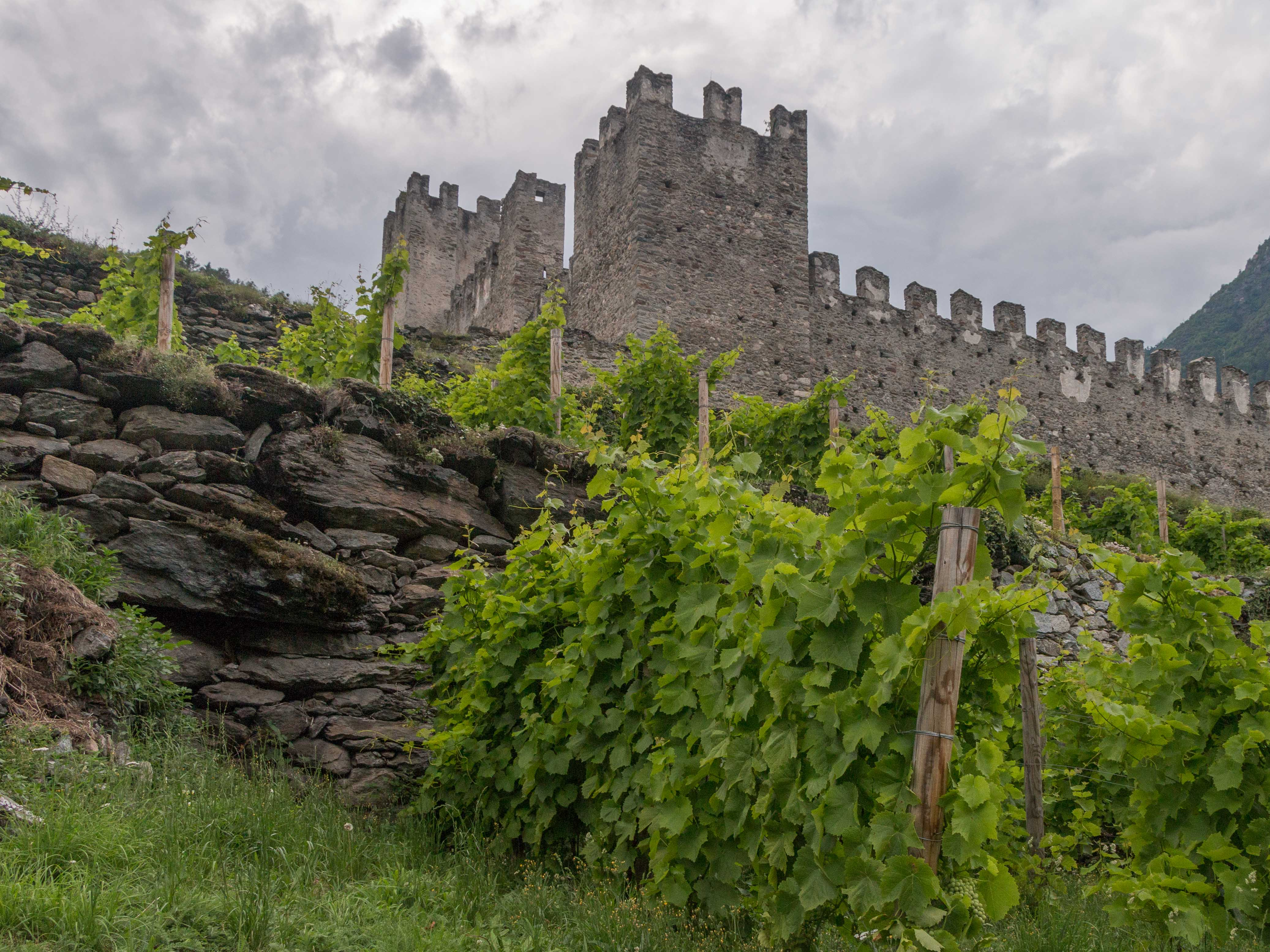 Grosio; wine terraces